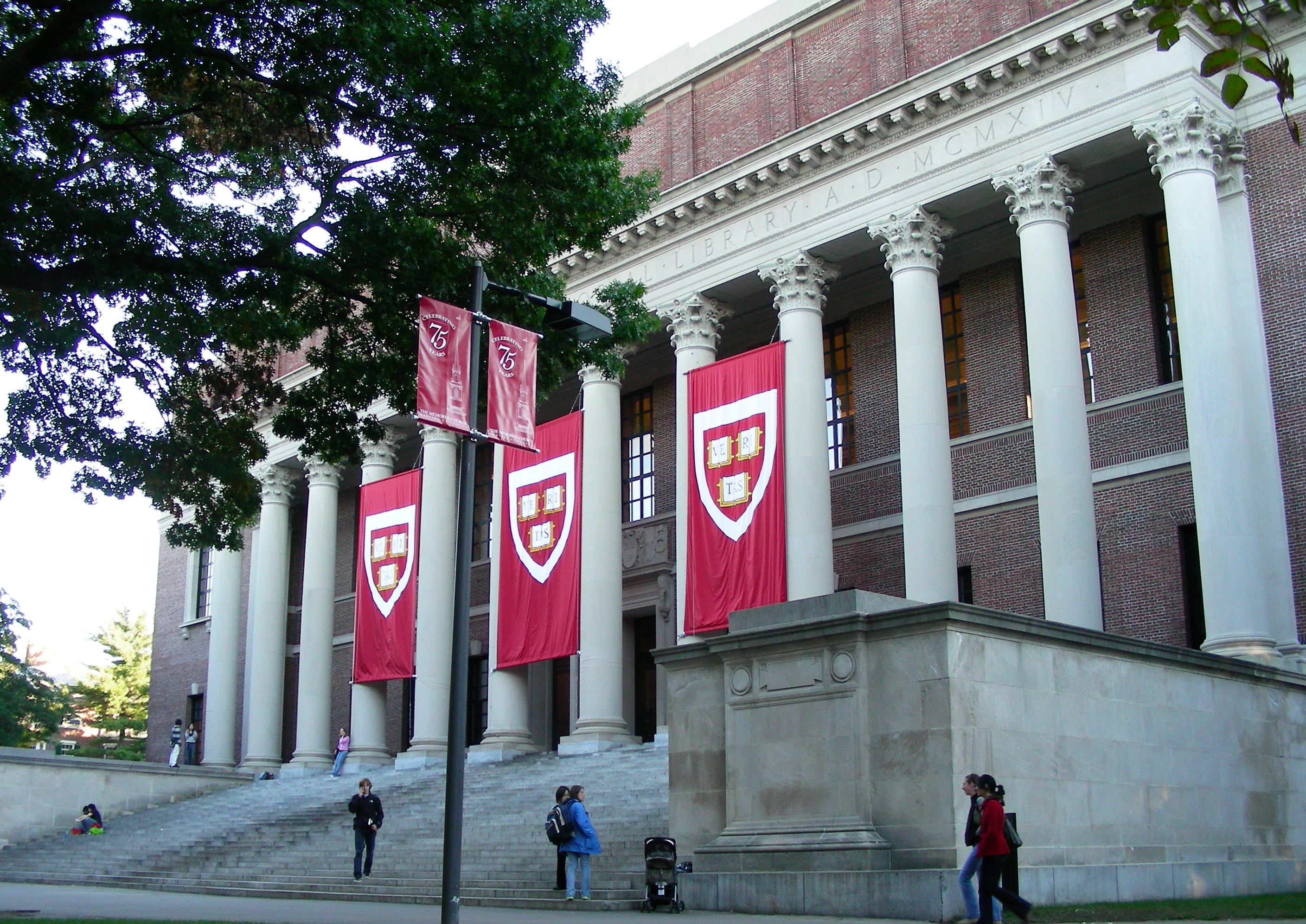 Harvard Yard, Widener Library, preparations for inauguration of President Drew Faust